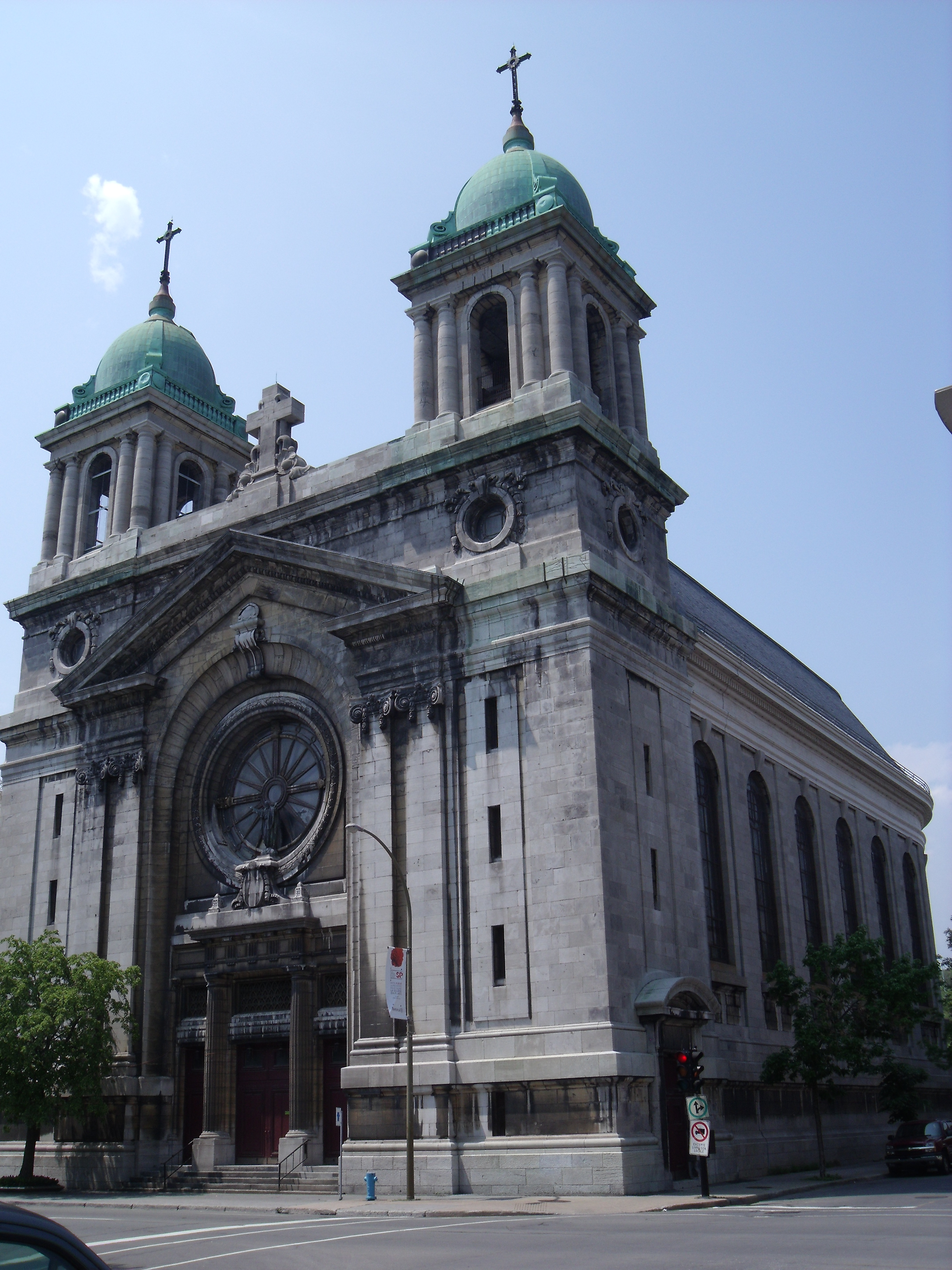 Église Sainte-Cunégonde, 2461 Saint-Jacques Street, Montreal, Canada.